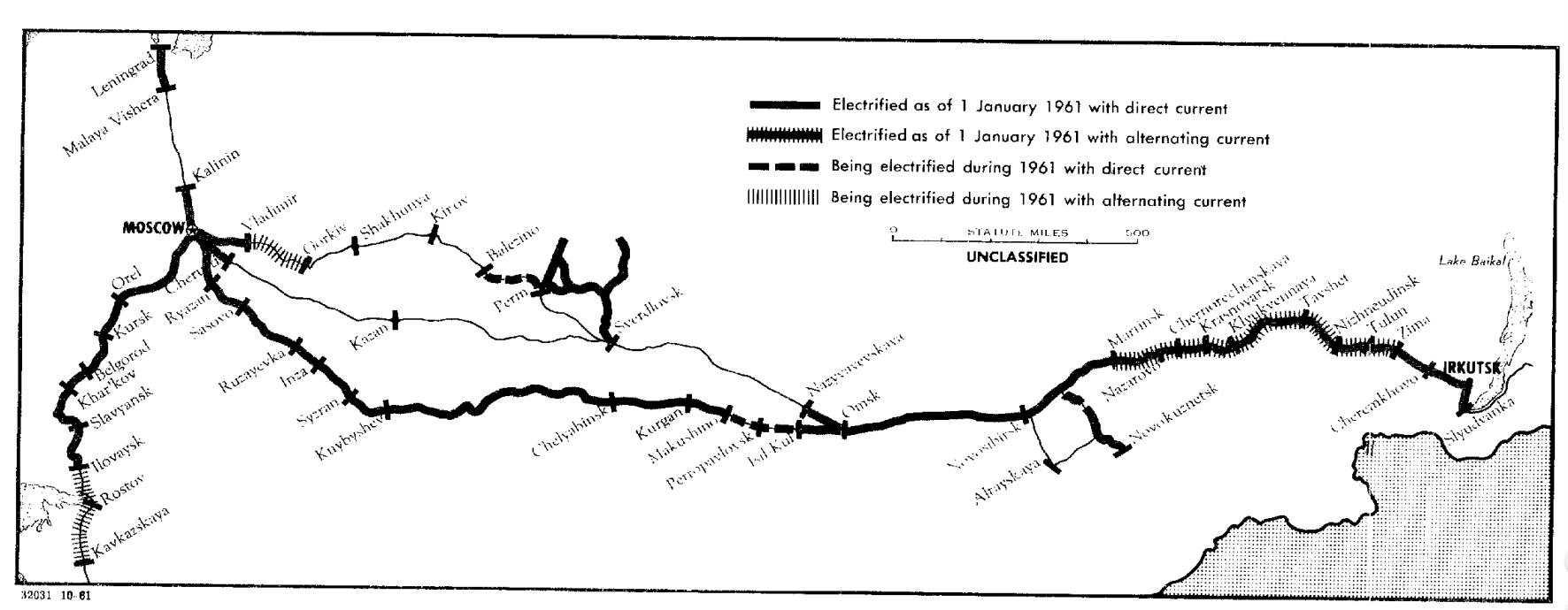 SZD electrification Moscow - Irkutsk 1962